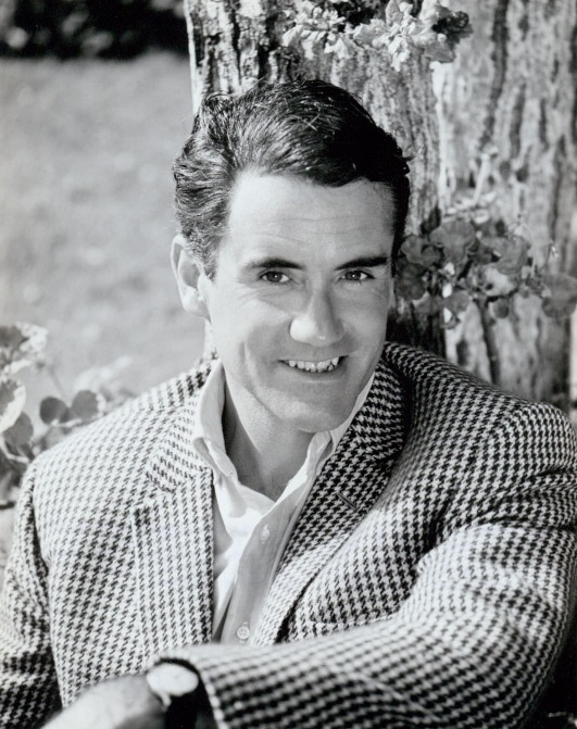 press photo of Ian Bannen in Penelope in 1966